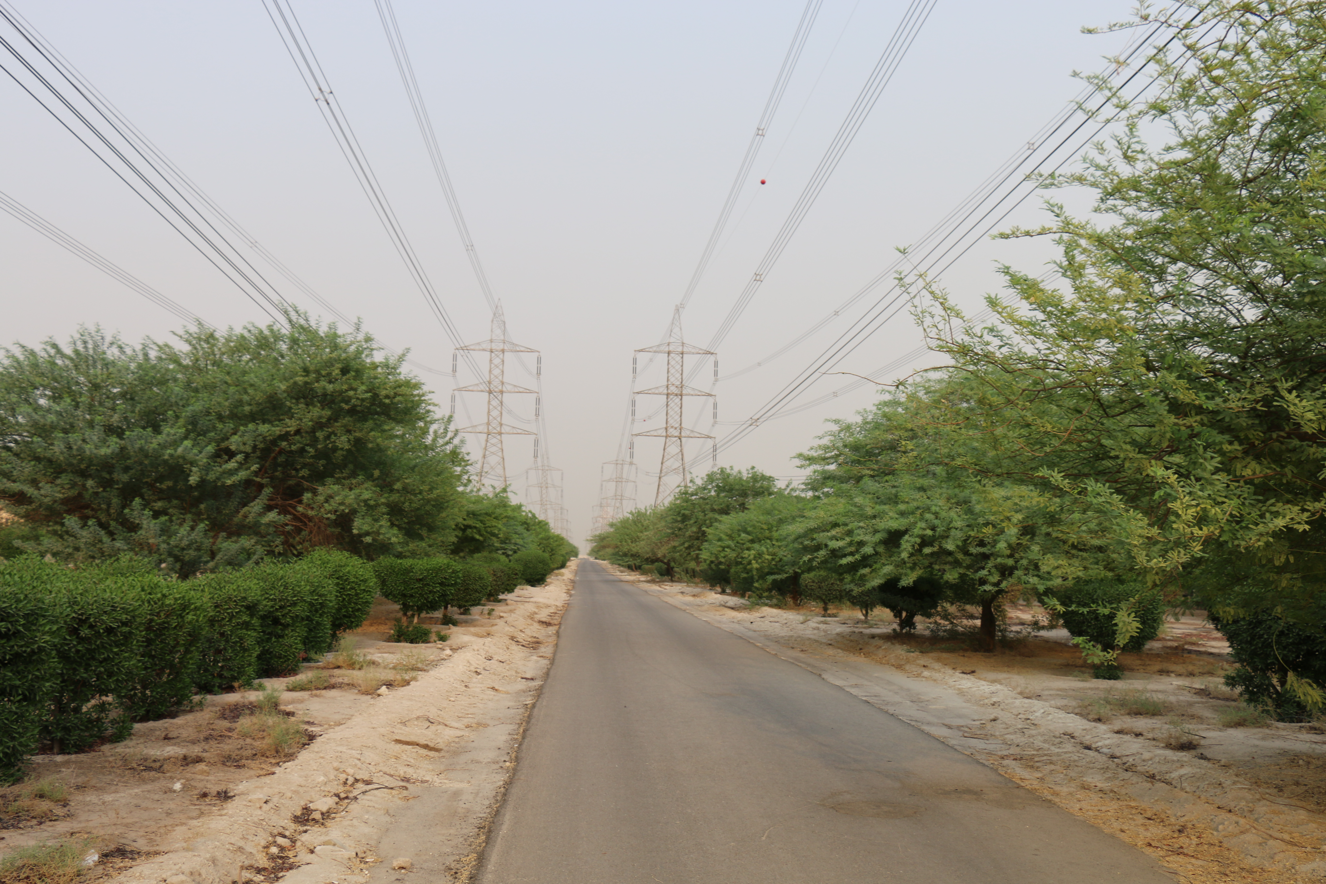 The northern Ardiya Walkway